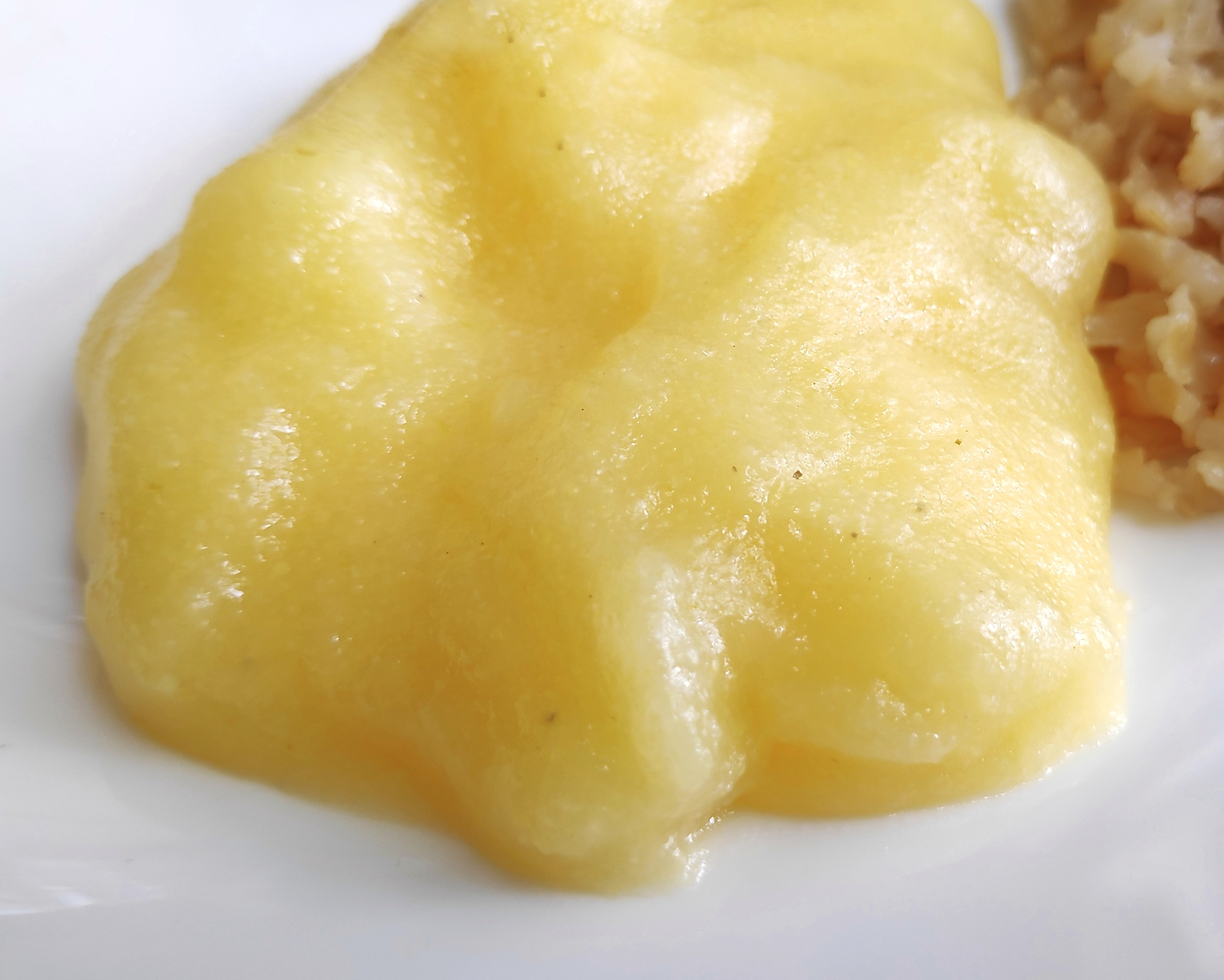 Angu à mineira (Minas corn porridge)